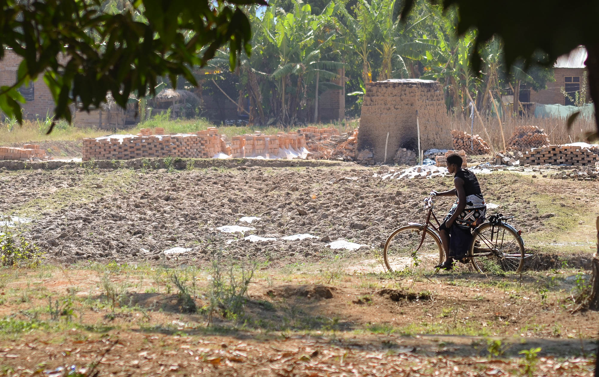 Pregnant women from Busoka villages located in Busale ward in Kyela district, have been using bicycle transportation to assess pregnancy development in Lema clinic, which is located about six kilometers from the villages. This is an image with the theme "Africa on the Move or Transport" from: Tanzania